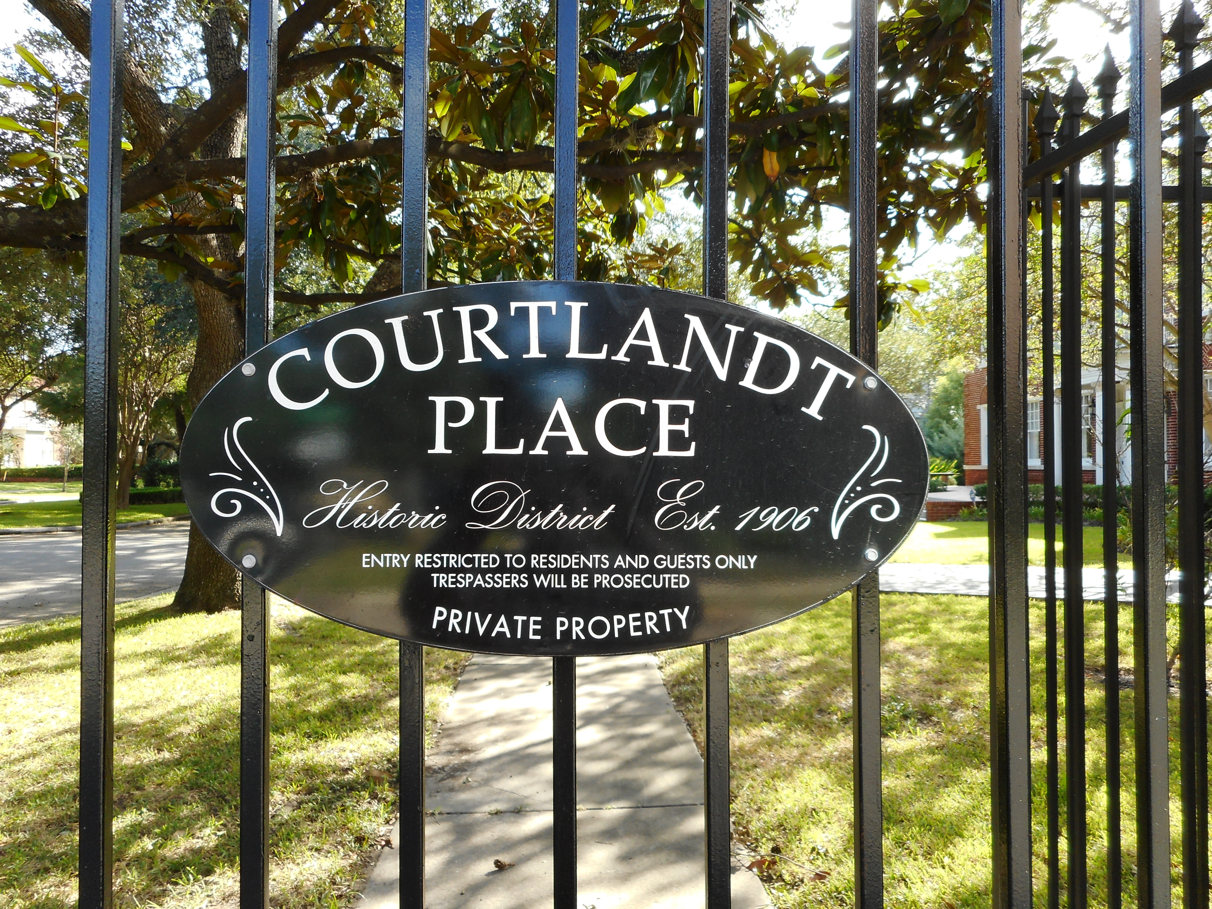 West gate at Courtlandt Place, Houston, Texas (2018).